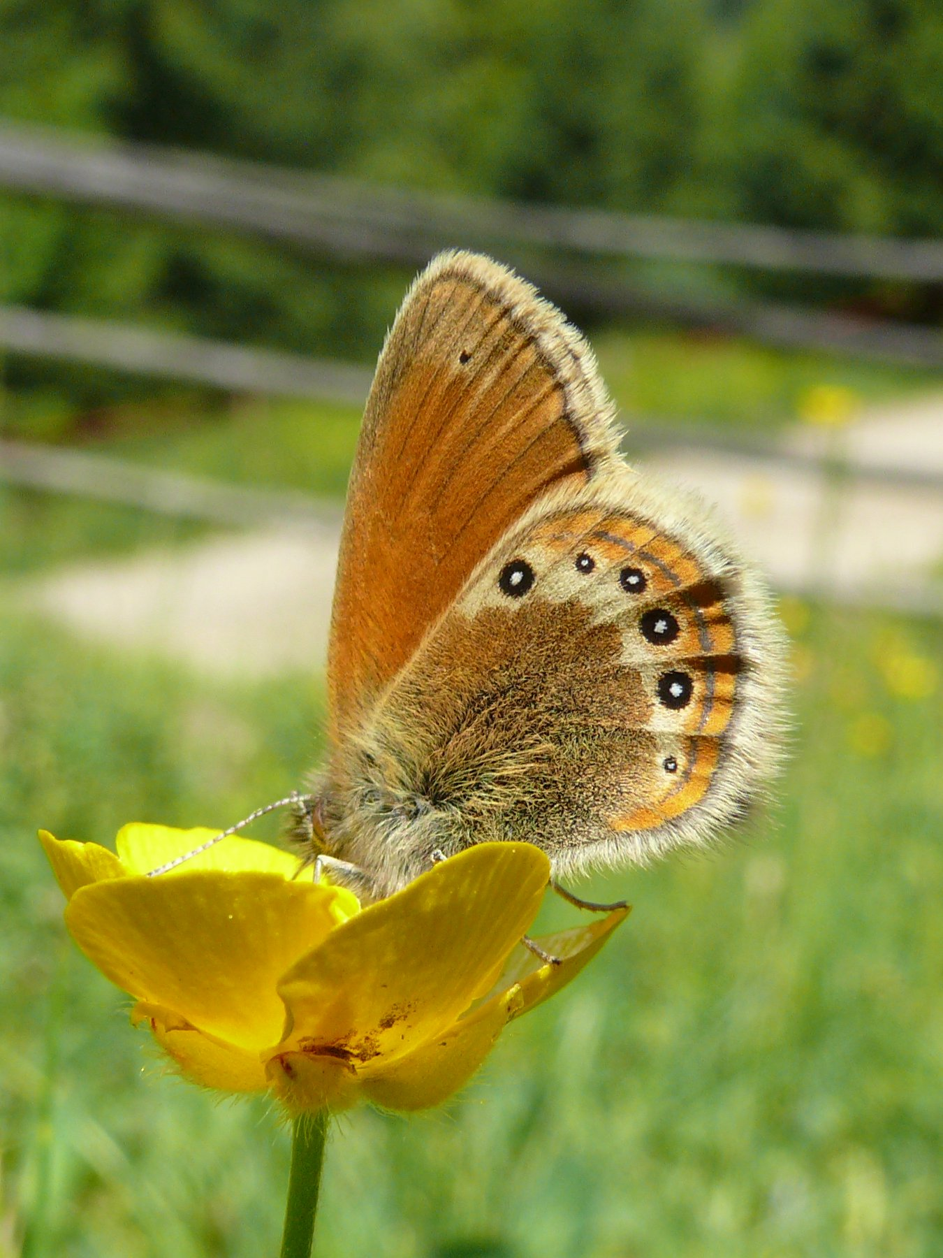 Alpine Heath ssp. darwiniana, South Tyrol, Lüsen